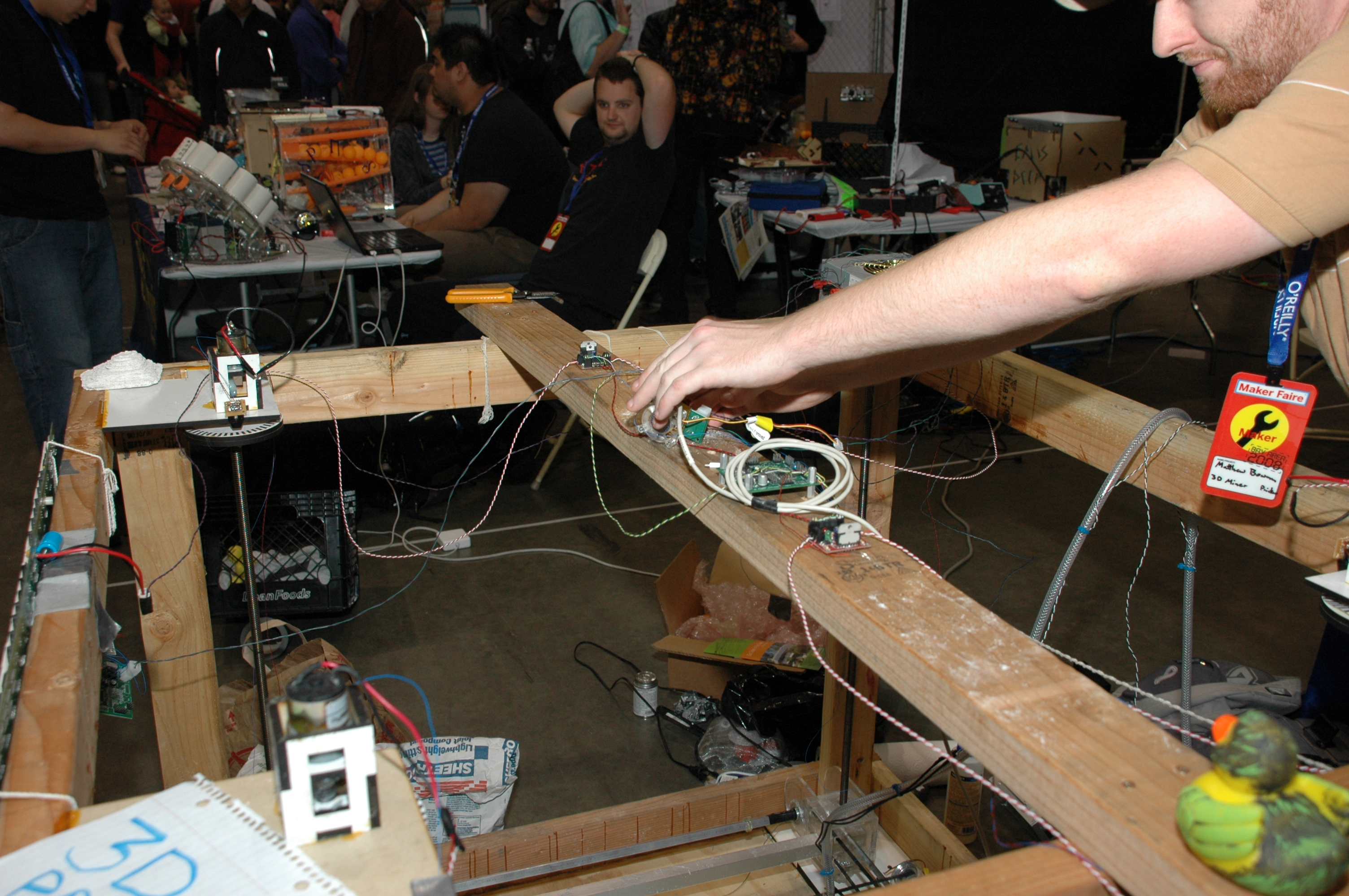 Maker Faire 2008, San Mateo - a 3D Concrete printer